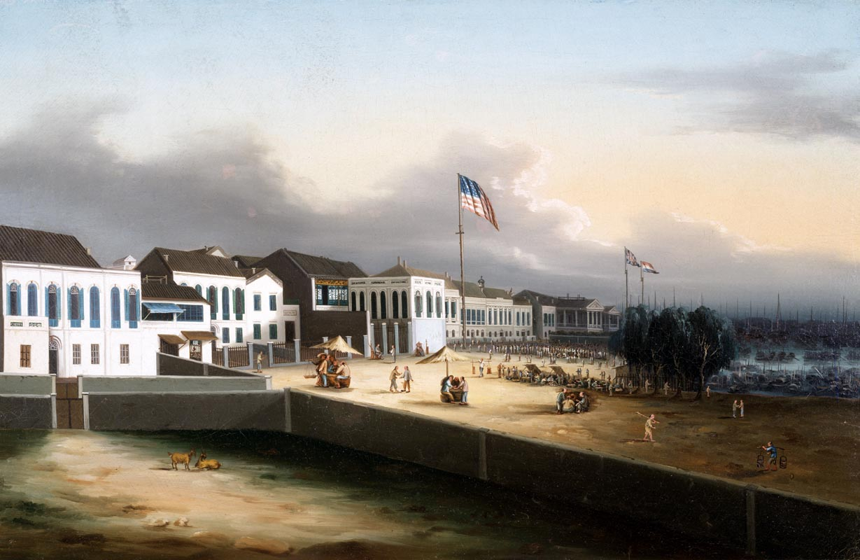 View of Foreign Factories, Canton, 1825–1835